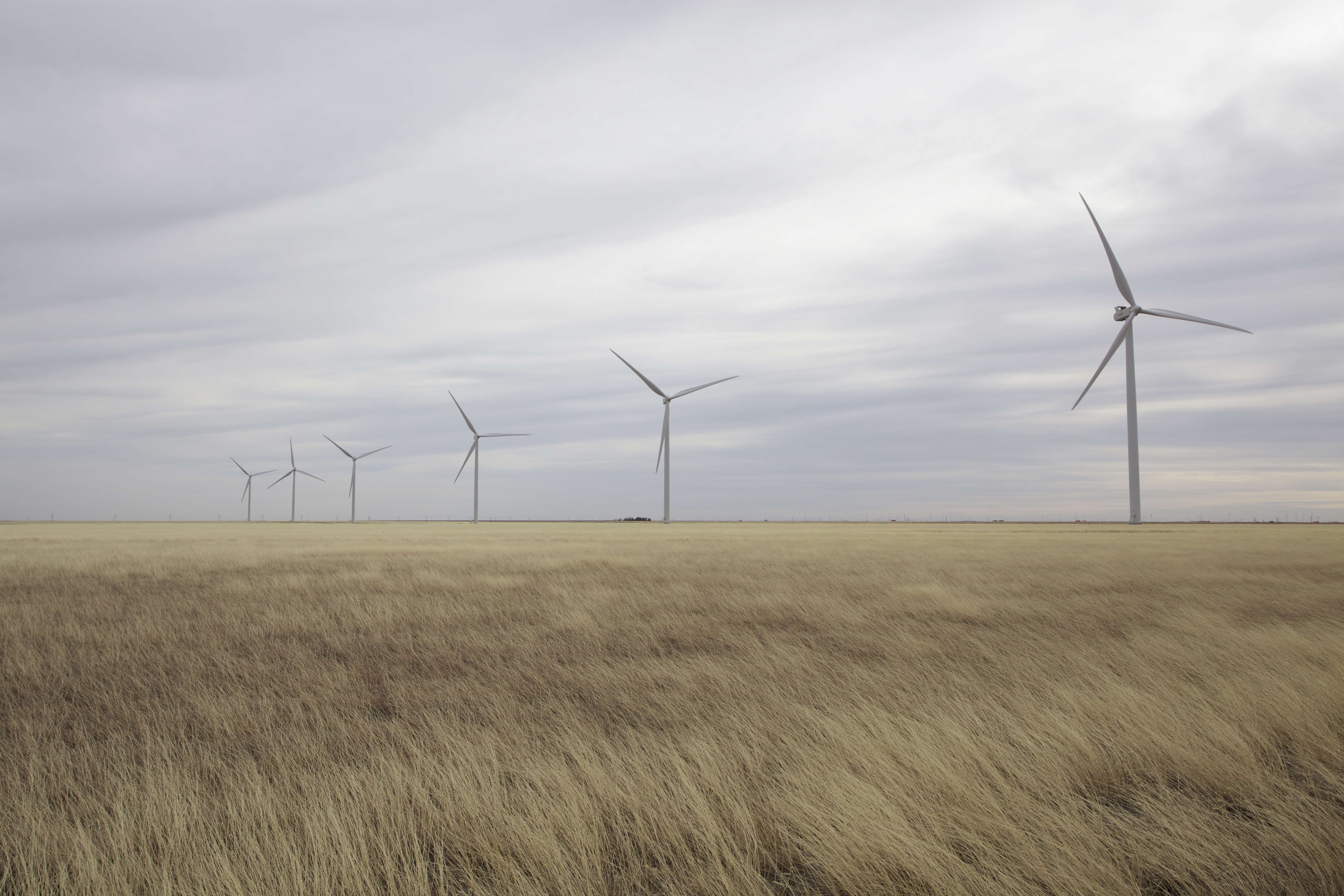 Wind turbines near South Plains, Texas.